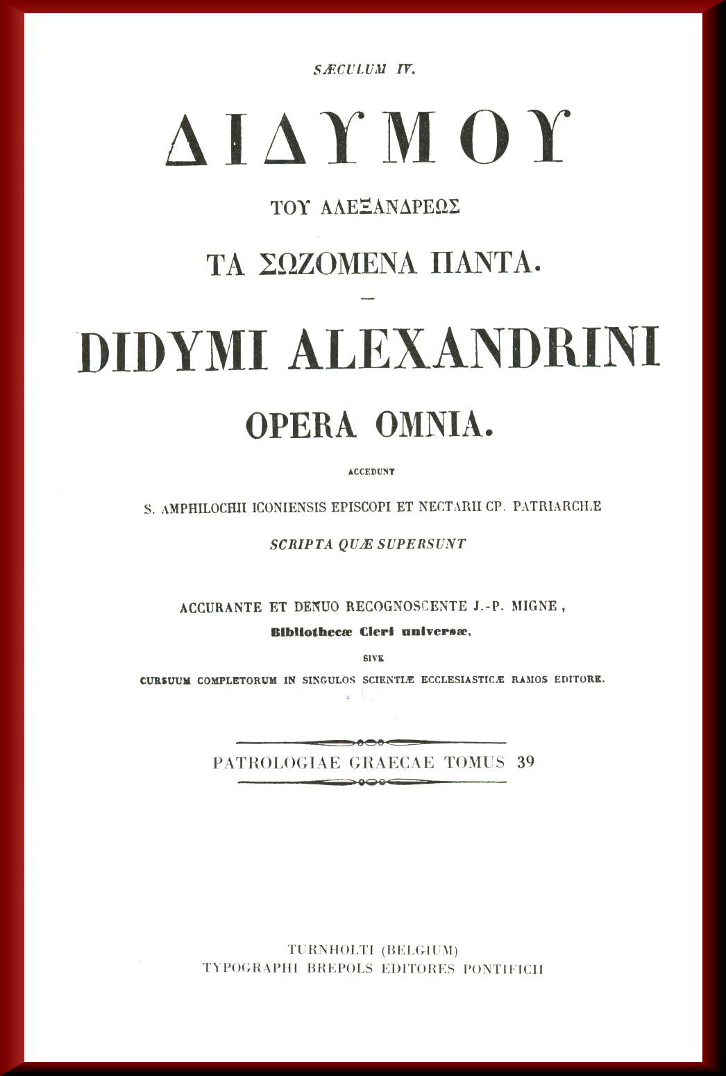 Title page of Patrologia Graeca 39, Paris 1858